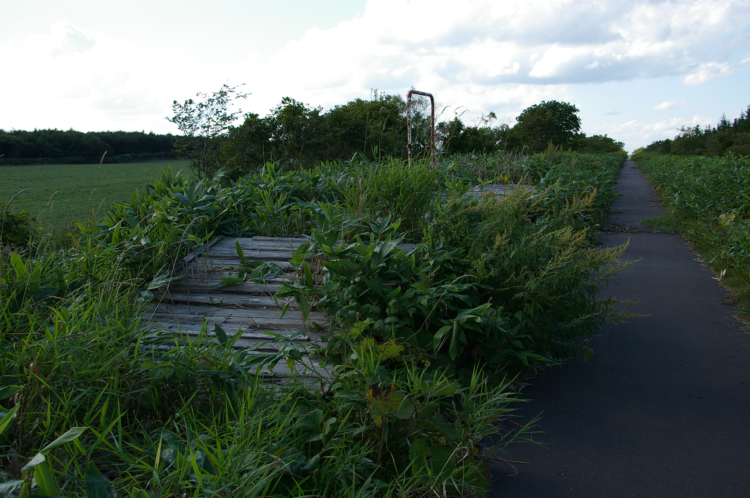 The mark in HIKOUJOUMAE STATION, JNR Tenpoku line.